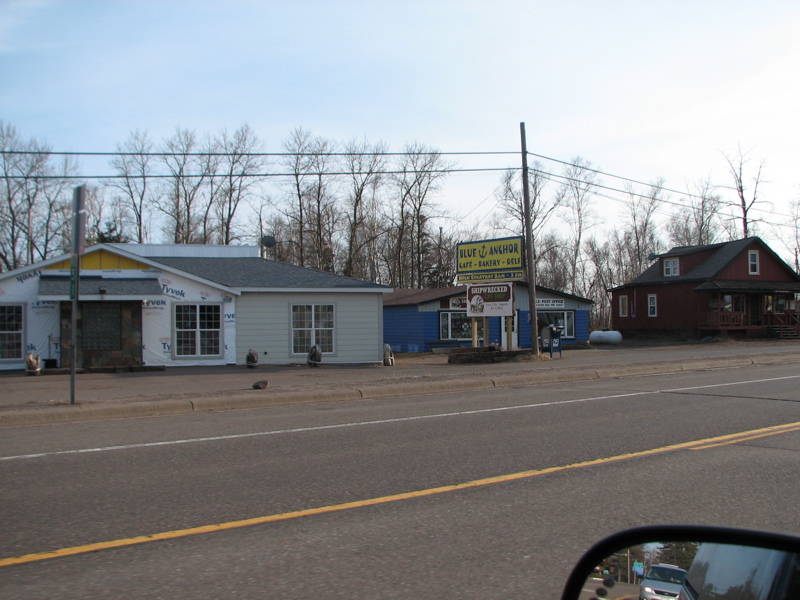 Blue Anchor restaurant in downtown Beaver Bay, Minnesota, USA.